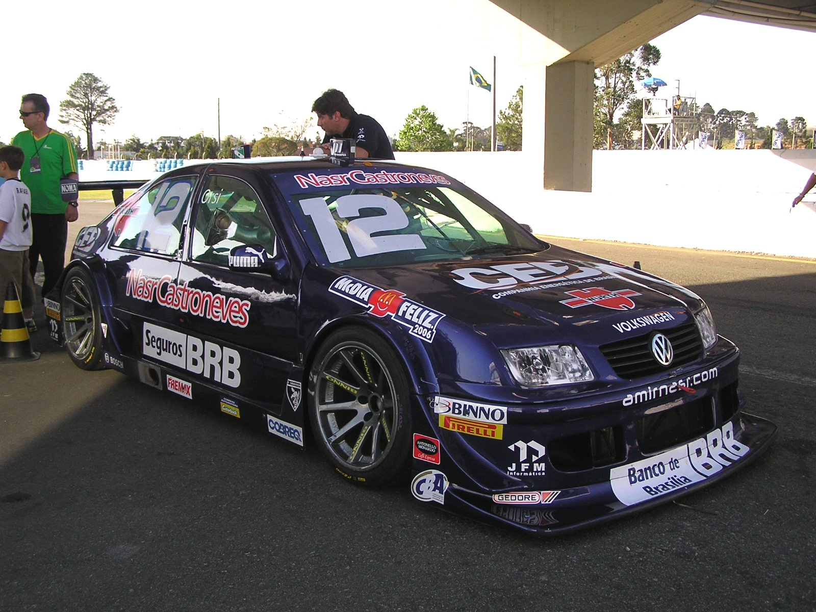 Stock Car V8 Brasil: Volkswagen Bora #12 Amir Nasr Racing, the car of Hoover Orsi.